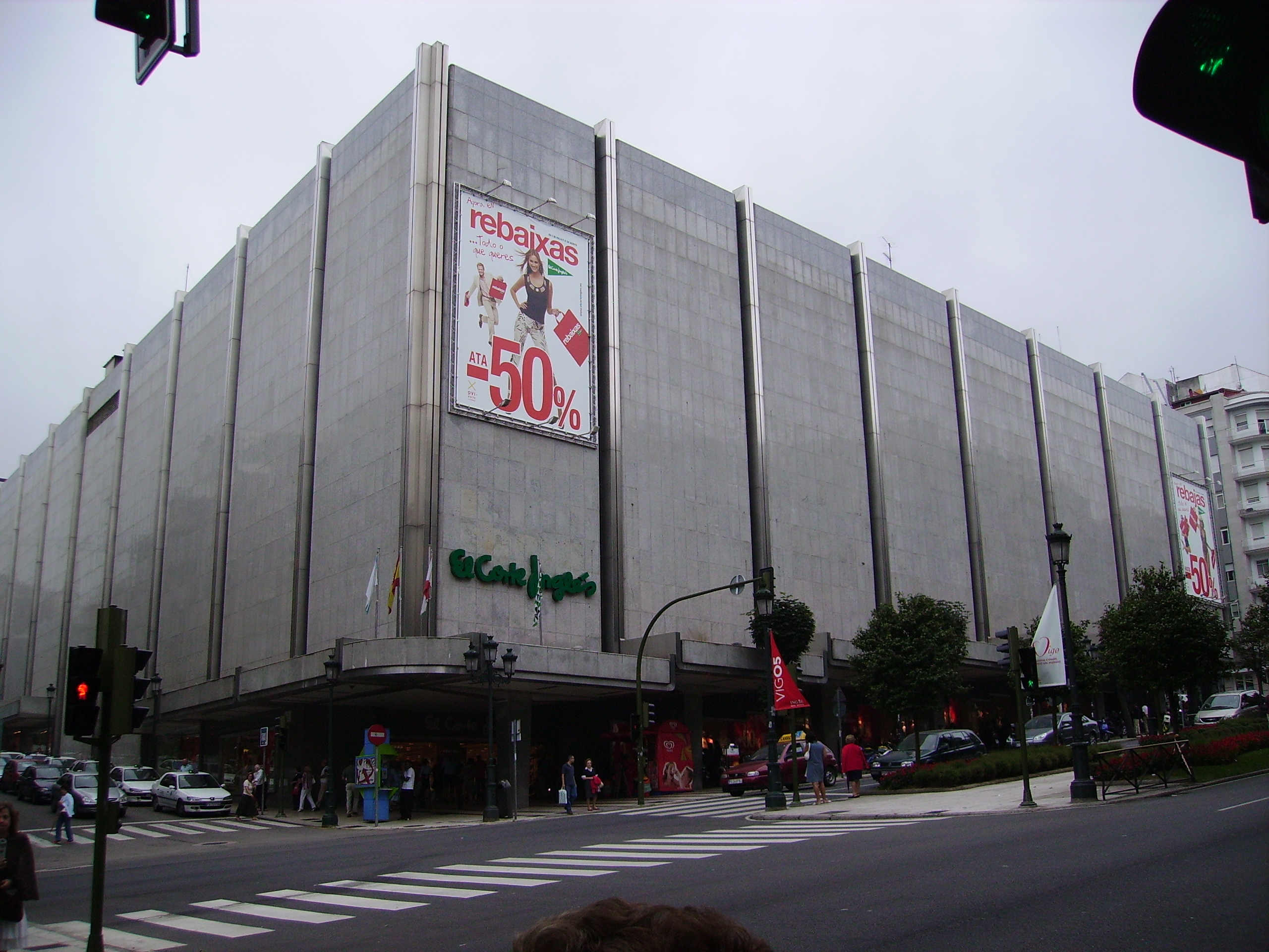 Store of the El Corte Inglés chain in Vigo.